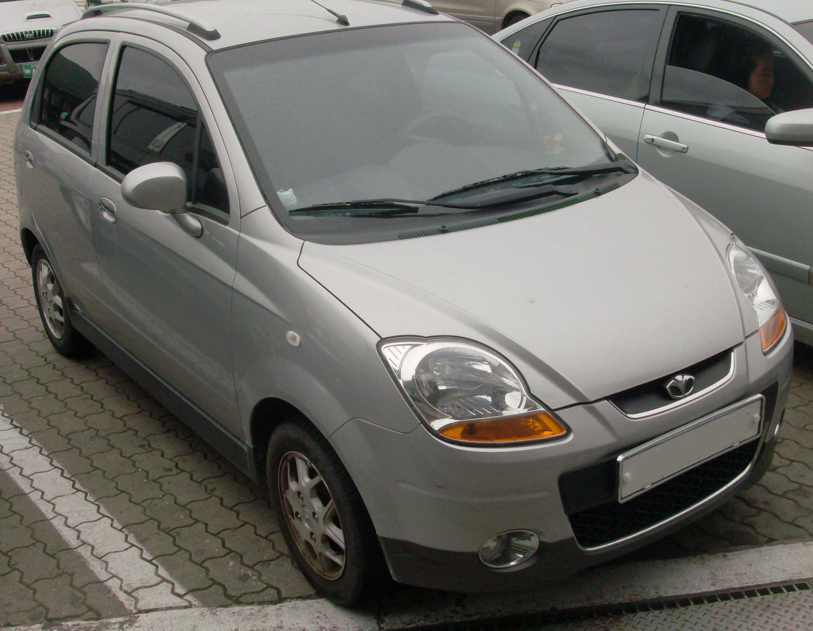 Daewoo Matiz photographed in South Korea.